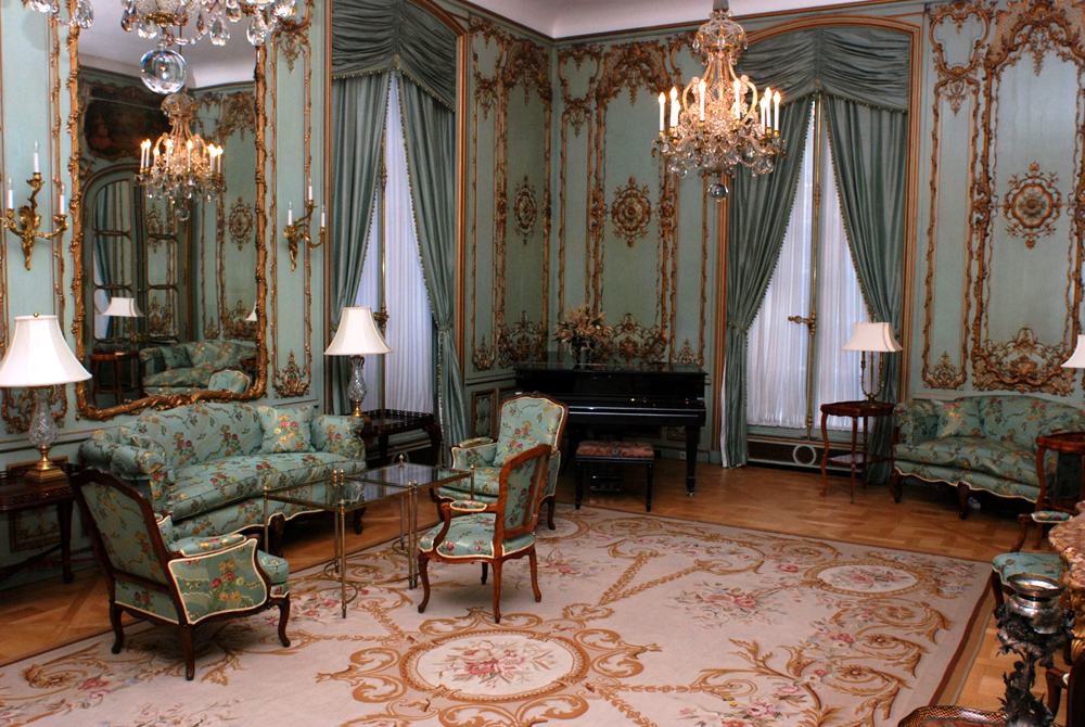 The Residence of the U.S. Ambassador in Prague’s Bubeneč was built by Otto Petschek in 1924—30. Music Room.